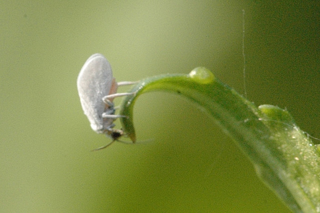 Picture taken in Commanster, Belgian High Ardennes . Species: Siphoninus phillyreae